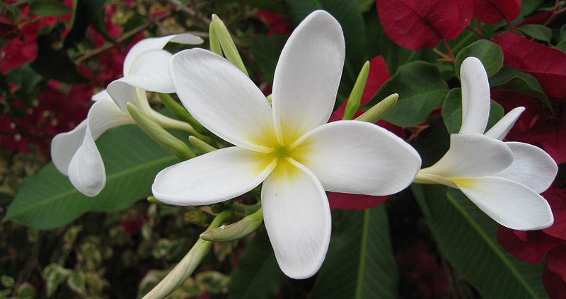 White Plumeria in the Dr. Rafael Ma. Moscoso National Botanical Garden